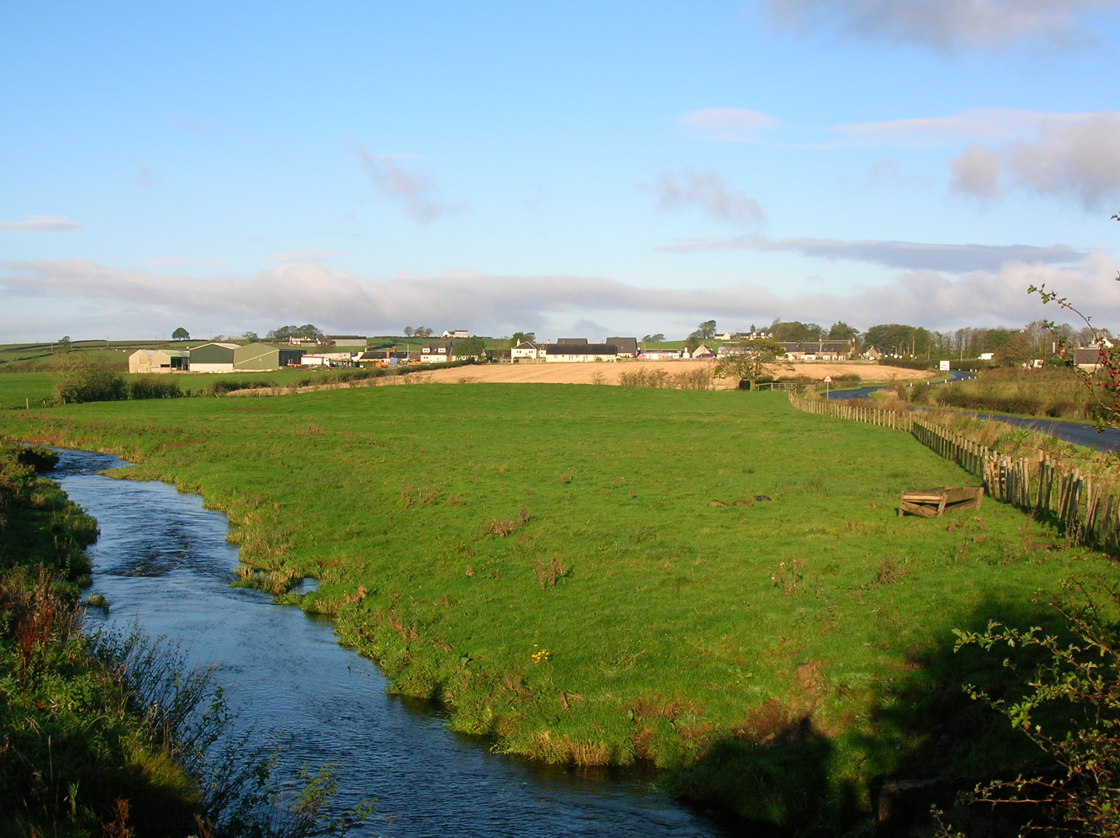 Burnhouse as seen from the Lugton Burn, North Ayrshire, Scotland